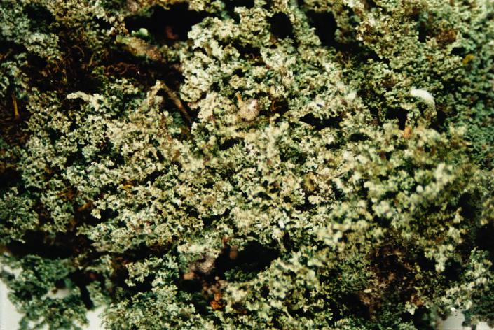 Cladonia parasitica (Hoffm.) Hoffm., 1796 Photograph of a herbarium specimen taken through a dissecting microscope, x7. C. parasitica was growing on a dead limb on the ground near a small stream, down hill from the Log Cabin Cellar (Middle Sector) at Soldiers Delight Natural Environment Area, Baltimore County, Maryland, USA (N 39o24.340', W 76o50.303', Elevation 599 feet) Collected and identified by E.C. Uebel (No. U-601A, 31 May 2006)